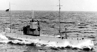 HMCS CC-1